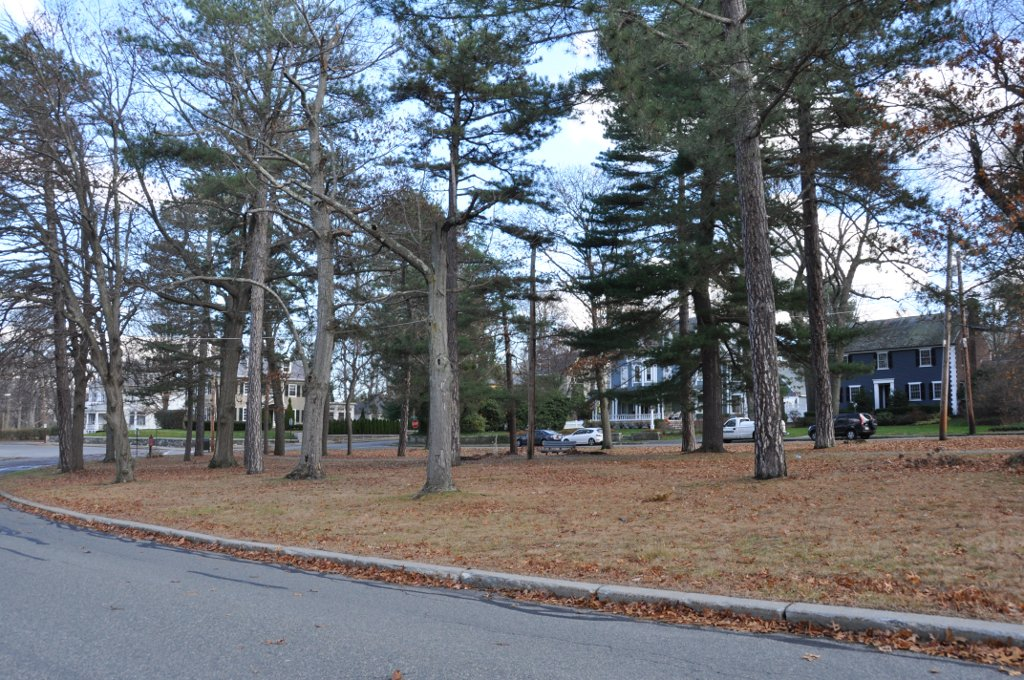 Kenrick Park, part of the Farlow and Kendrick Parks Historic District in Newton, Massachusetts.